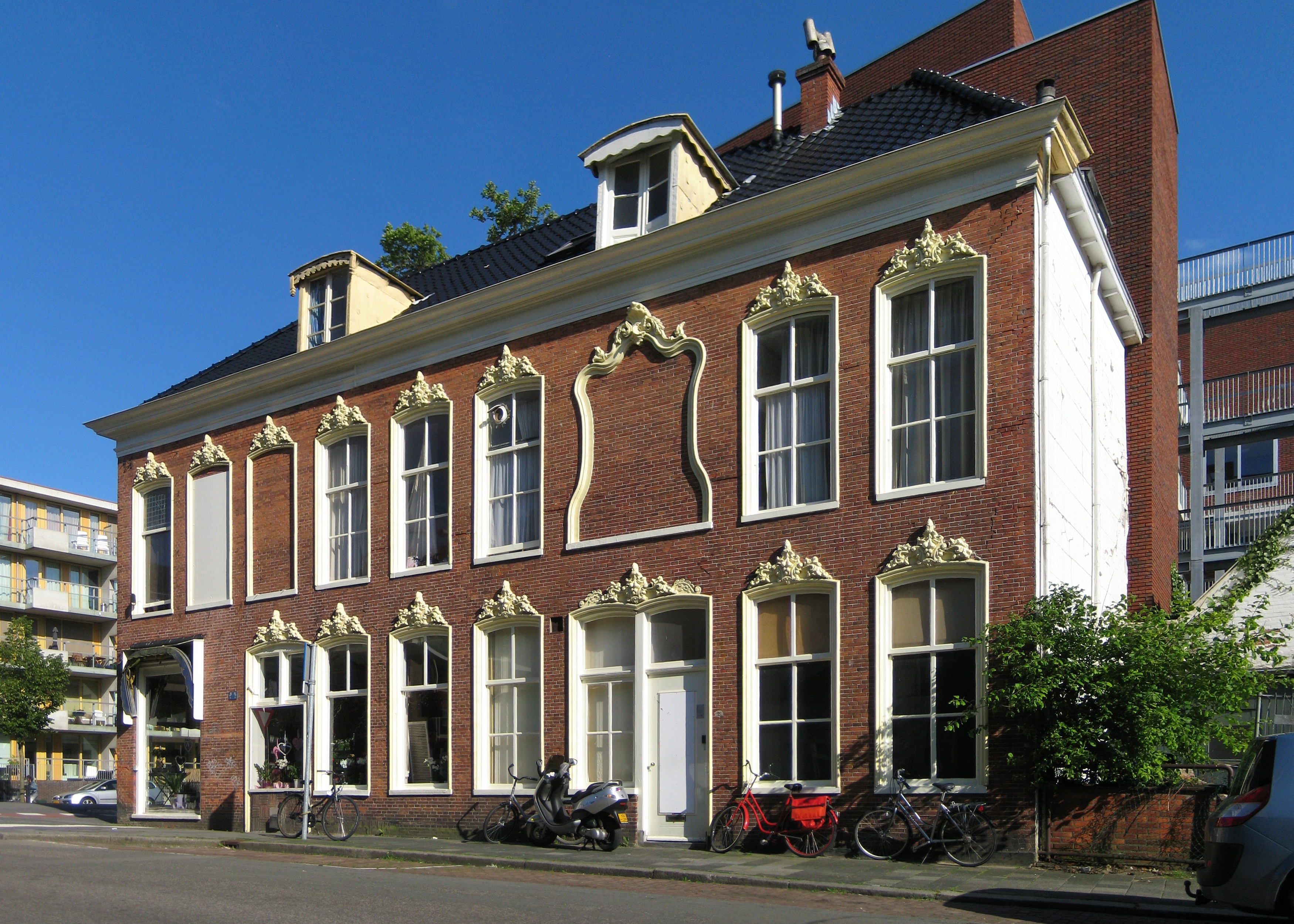 Shop and house (1867/1907) in the Dutch city of Groningen.